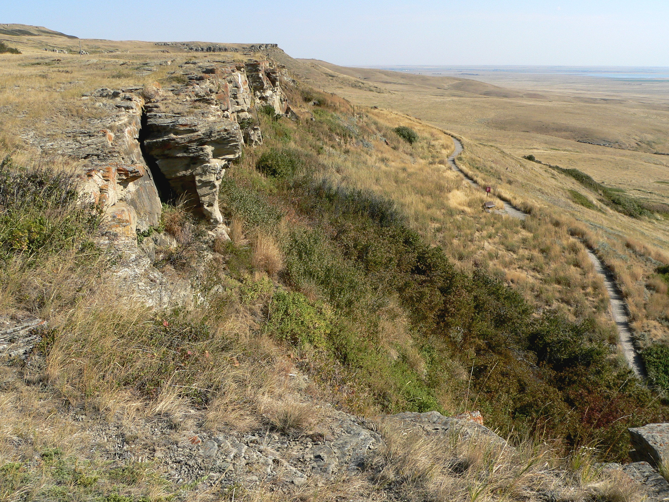 The view north along the top of the cliffs at Head-Smashed-In Buffalo Jump, a World Heritage Site in Alberta, Canada. Photo taken with a Panasonic Lumix DMC-FZ20.